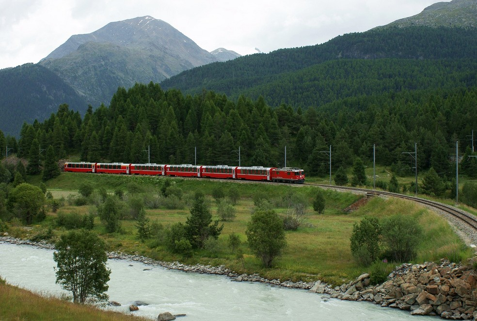 Bernina Express near Pontresina